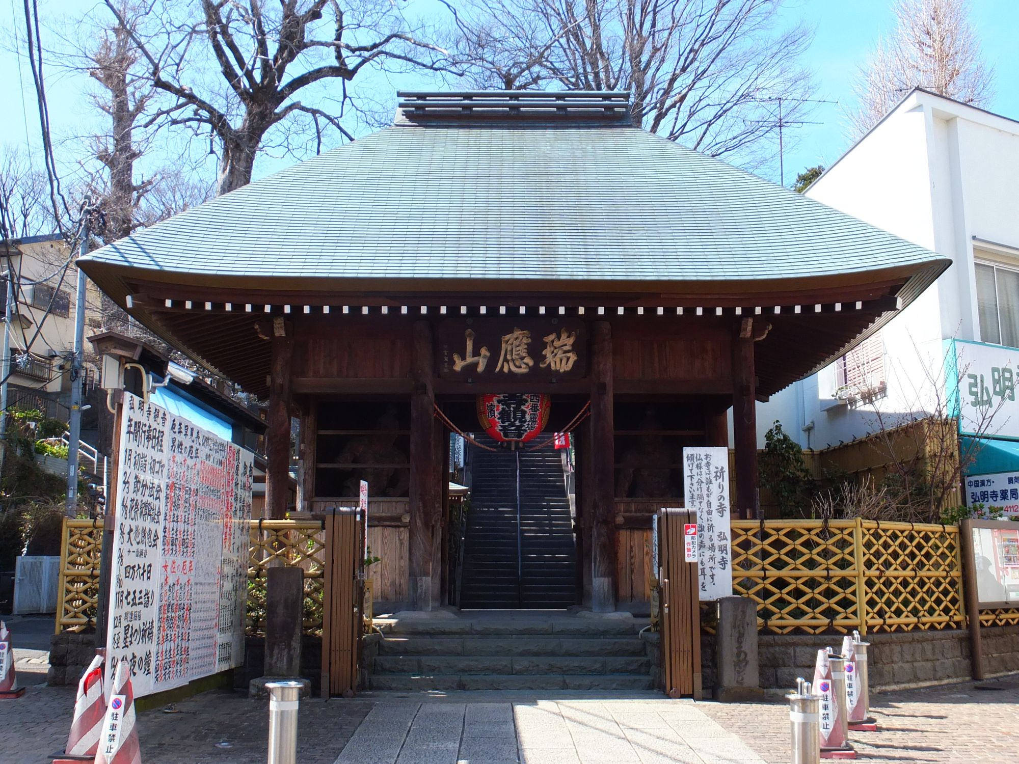 Niōmon gate of Gumyō-ji temple in Yokohama, Kanagawa